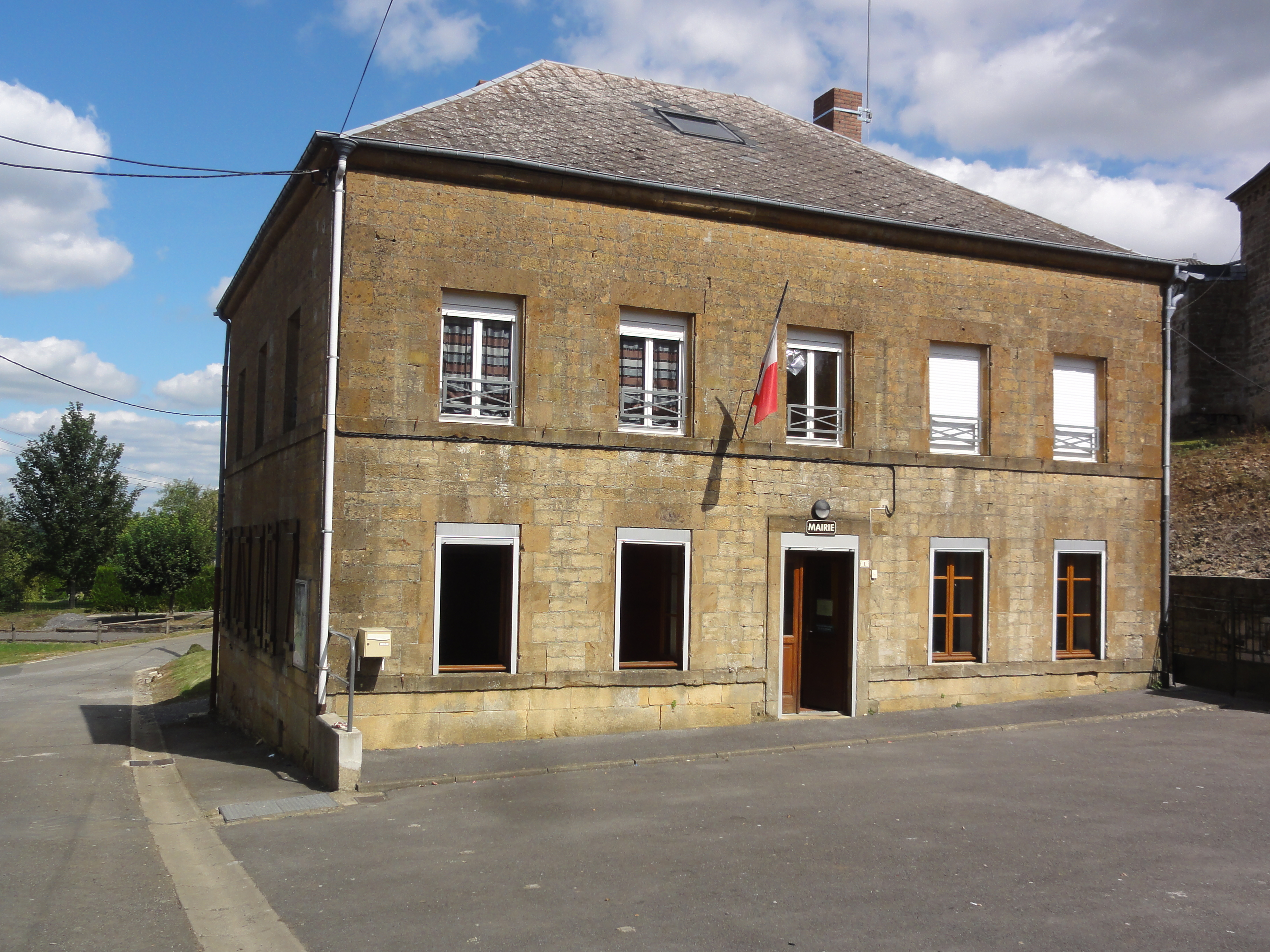 Marby (Ardennes) mairie